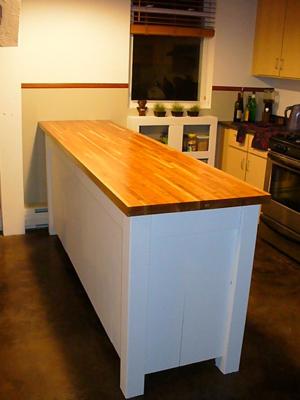 Cherry butcher block counter top.